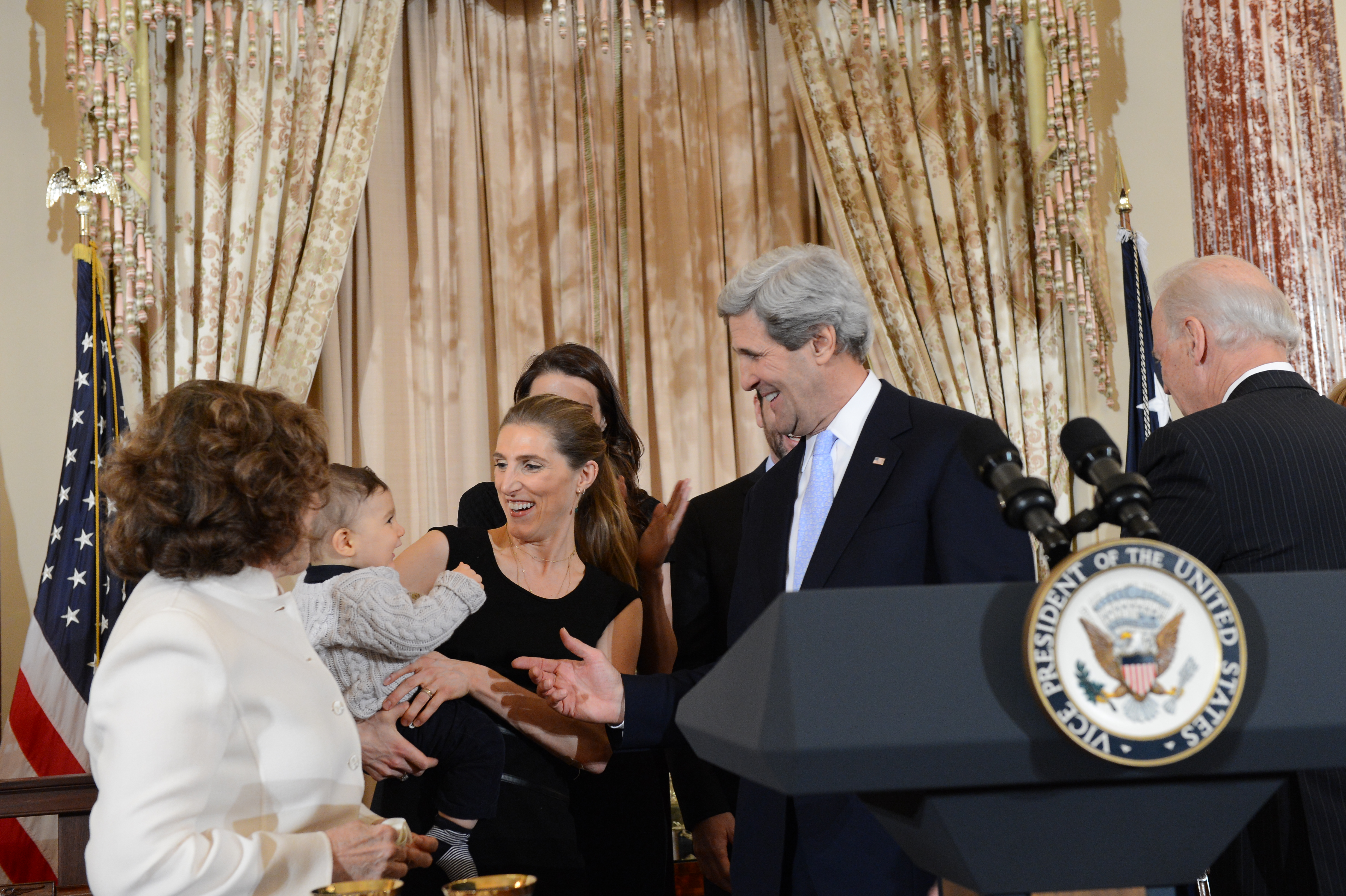 U.S. Secretary of State John Kerry is congratulated by his family after he is ceremonially sworn in by U.S. Vice President Vice Biden at the U.S. Department of State in Washington, D.C., February 6, 2013. Also pictured is U.S. Vice President Joe Biden, right. [State Department photo/ Public Domain]